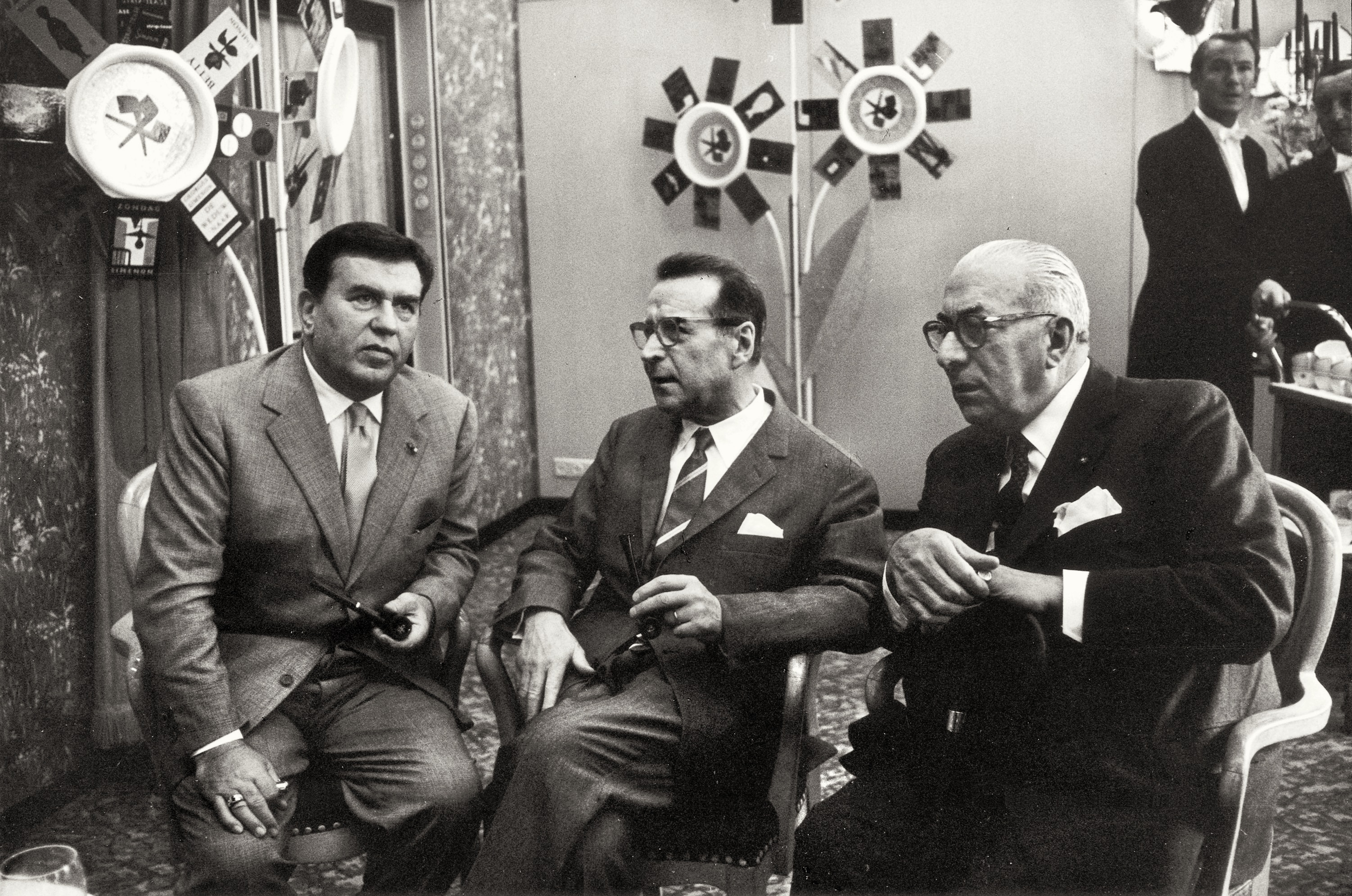 Italian publisher Arnoldo Mondadori with French author Georges Simenon and Italian actor Gino Cervi